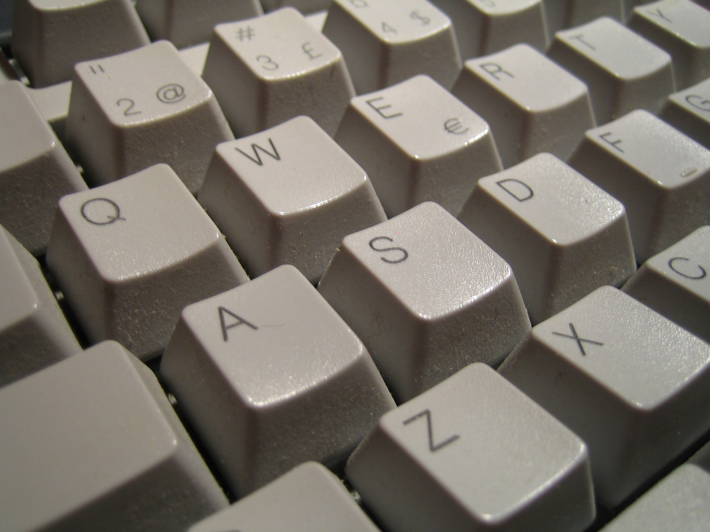 Just a photo of the wasd-keys centered. I, Samuel Skånberg, is the author and took the picture 2007-02-02 with my sisters canon ixus 40 digital camera.